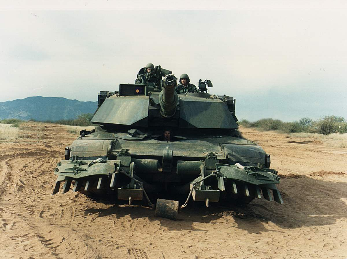 A U.S. Army M-1A1 Abrams main battle tank is equipped with a mine plow which is designed to push mines out of the tank's path, clearing a lane for other vehicles to follow. The Army's 1st Armored Division will deploy mine plows such as these to Bosnia and Herzegovina for NATO's Operation Joint Endeavor.